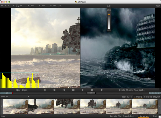 This is a screenshot of the "JahPlayer" from Website. The Program is under GNU/GPL License.